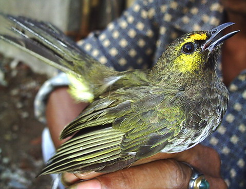 Pycnonotus bimaculatus, by Muhammad Muslich, taken at Desa Jabranti, Kuningan, Jawa Barat, Indonesia.